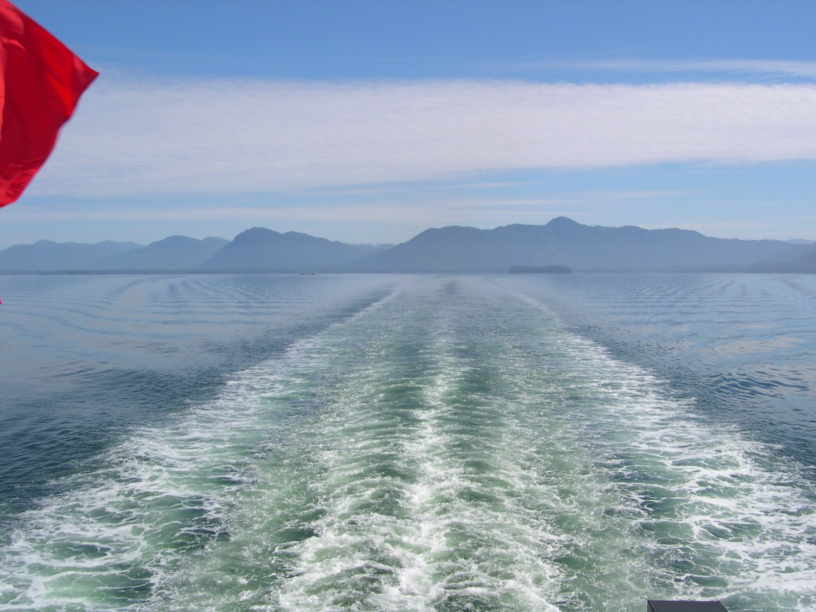 watching the mainland recede behind us as we sail off to the queen charlotte islands. can i still use the verb "to sail" if there is no sail on our boat?